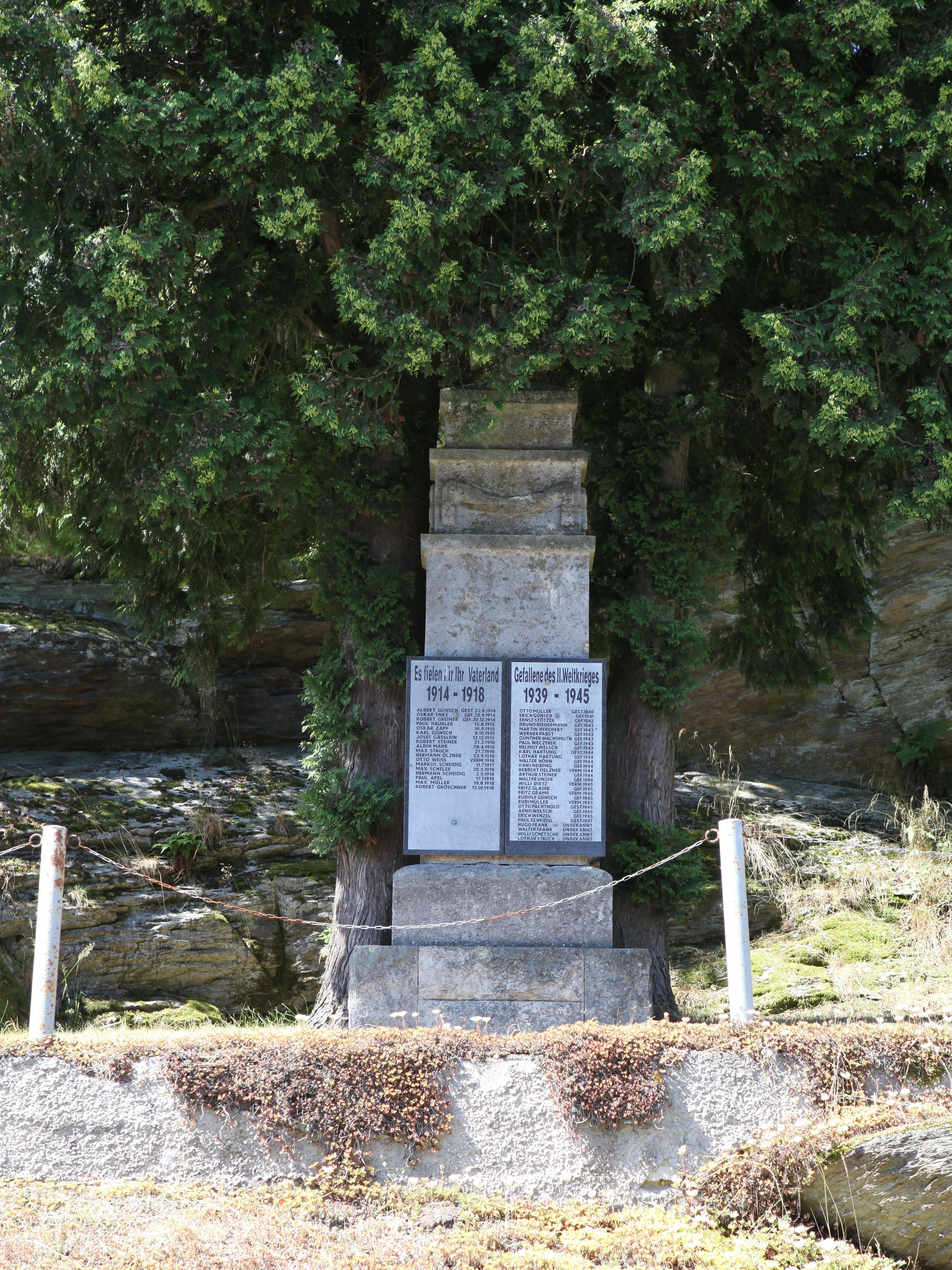 War memorial in the municipality of Lichte, quarter (urban subdivision): Bock-und-Teich Oberlichte), Thuringia, Germany.